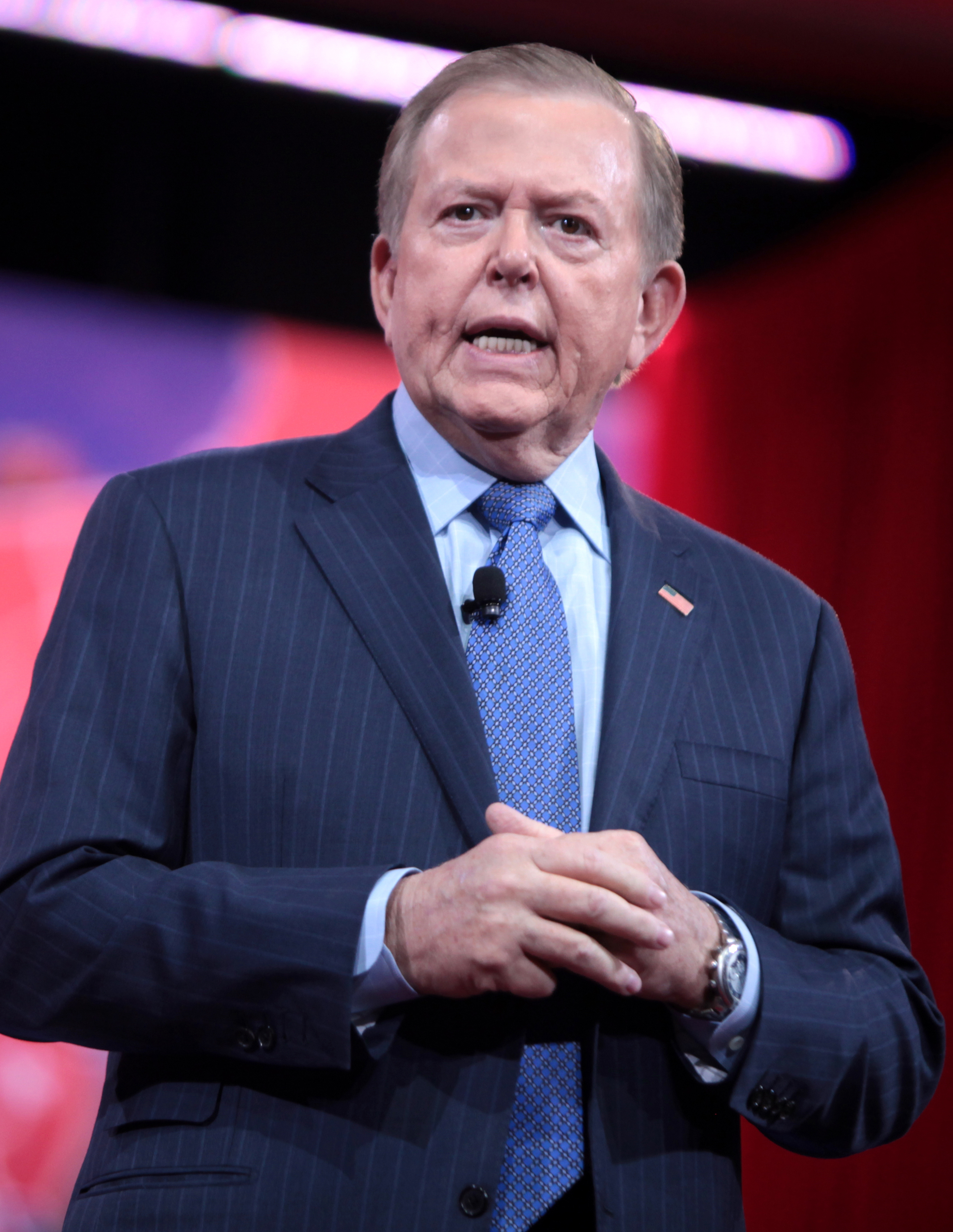 Lou Dobbs speaking at CPAC 2015 in Washington, DC.